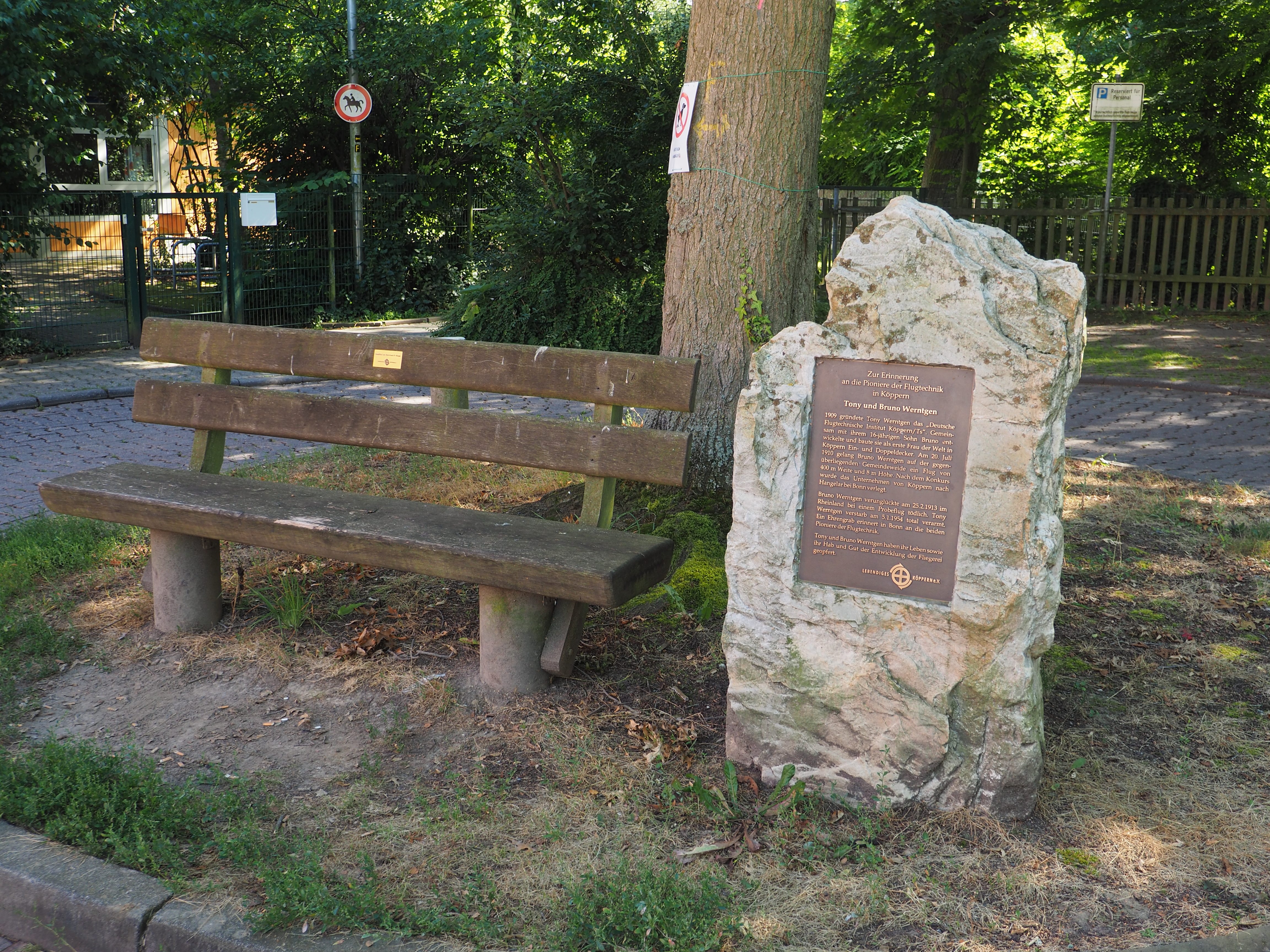 Memorial for flight pioneers Tony and Bruno Werntgen who had their German flight-technical institute in Friedrichsdorf-Köppern